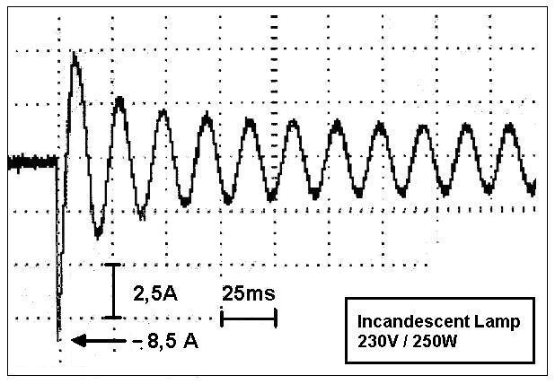 inrush current of an incandescent lamp 230V/250W